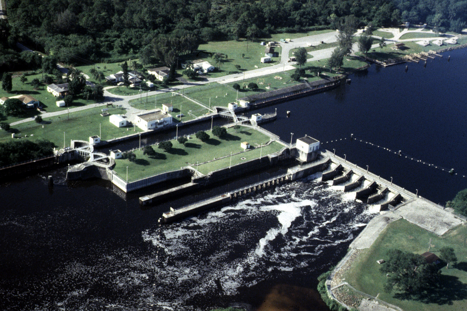 St. Lucie Lock and Dam on the St. Lucie Canal in Martin County, Florida, USA. The canal connects the Intracoastal Waterway with Lake Okeechobee and is a part of the Okeechobee Waterway, which cuts across central Florida and connects the Atlantic Ocean to the Gulf of Mexico. The lock is approximately 15 miles (24 km) upstream from the Intracoastal Waterway at Stuart, Florida. St. Lucie Lock and Dam is one of five locks and dams on the Okeechobee Waterway. Coordinates: 27°6′42.67″N 80°17′7.41″W / 27.1118528°N 80.2853917°W